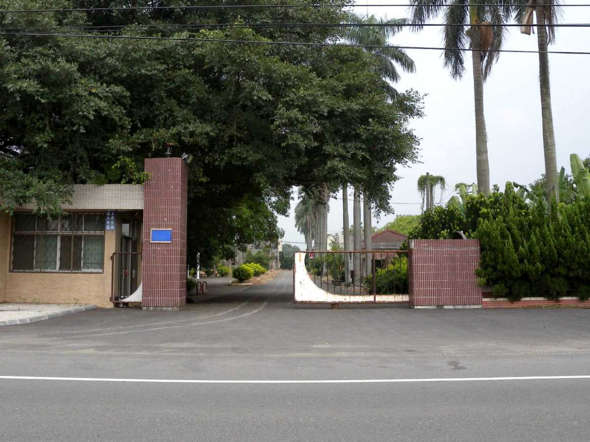 Douliu Sugar Factory